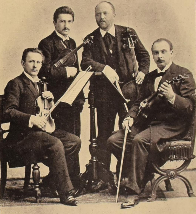 Bohemian Quartet as of late 1890-ies: Karel Hoffmann (1st violin), Josef Suk (2nd violin), Hanuš Wihan (cello), Oskar Nedbal (viola)